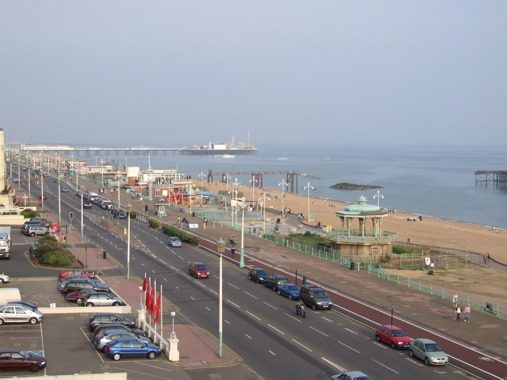 Brighton. From Embassy Court - towards the Palace Pier